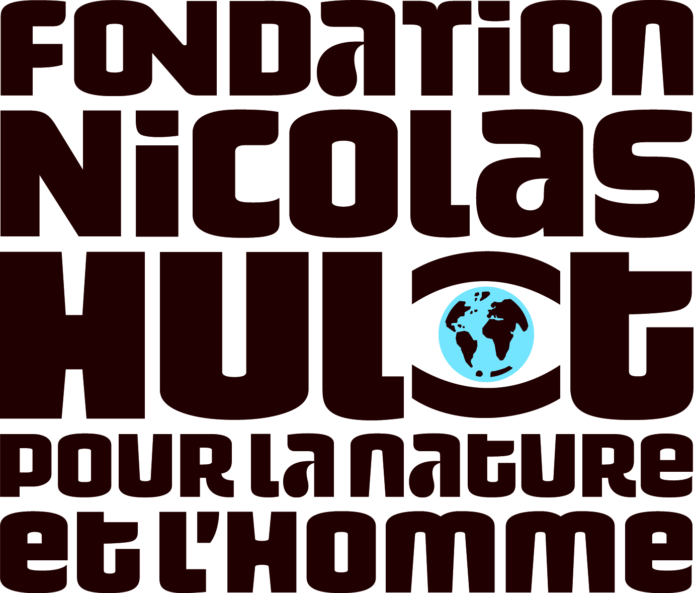 Logo of the Nicolas Hulot Foundation for Nature and Man (as of June 2009).